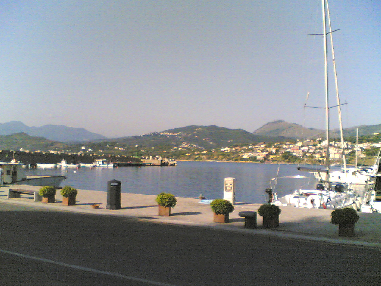 The port of Palinuro (Italy)